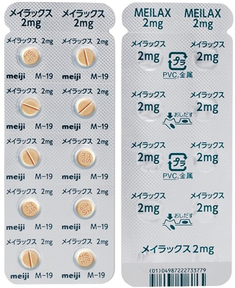 Meilax (Ethyl loflazepate) 2 mg tablets